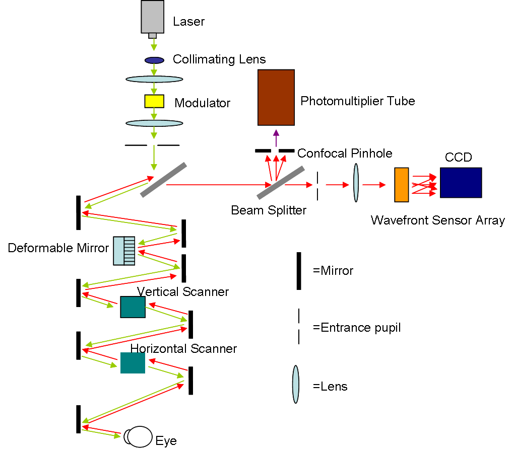 Setup of an adaptive optics scanning laser ophthalmoscopy device